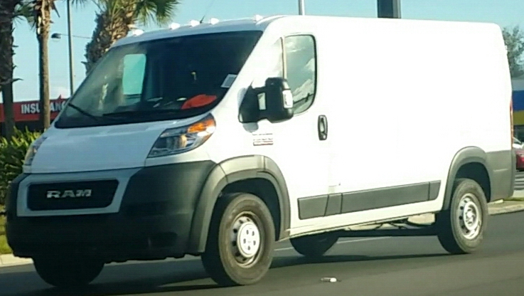 2019 Ram ProMaster photographed photographed in Kissimmee , Florida, USA.